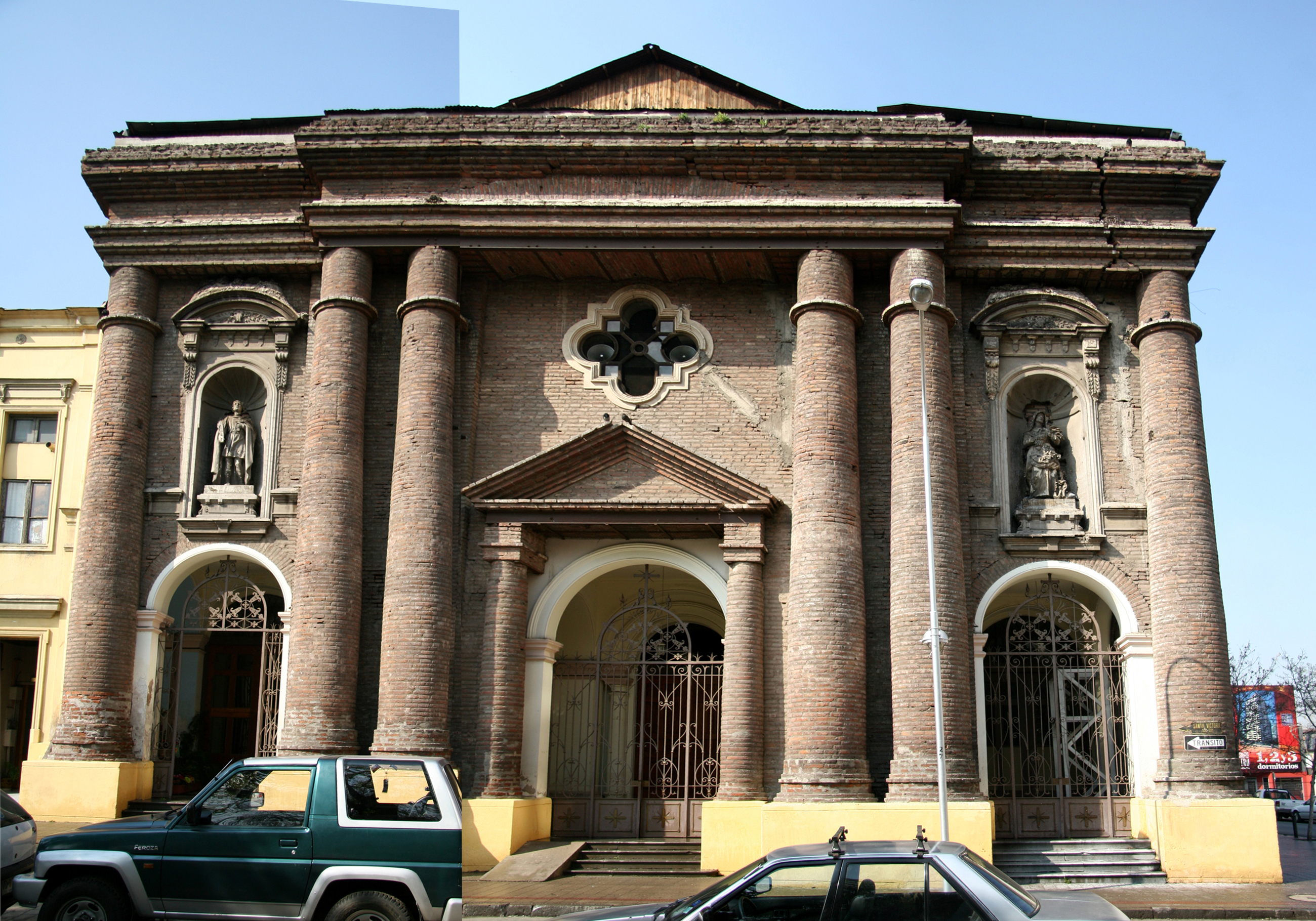 Facade of San Isidro Labrador Church